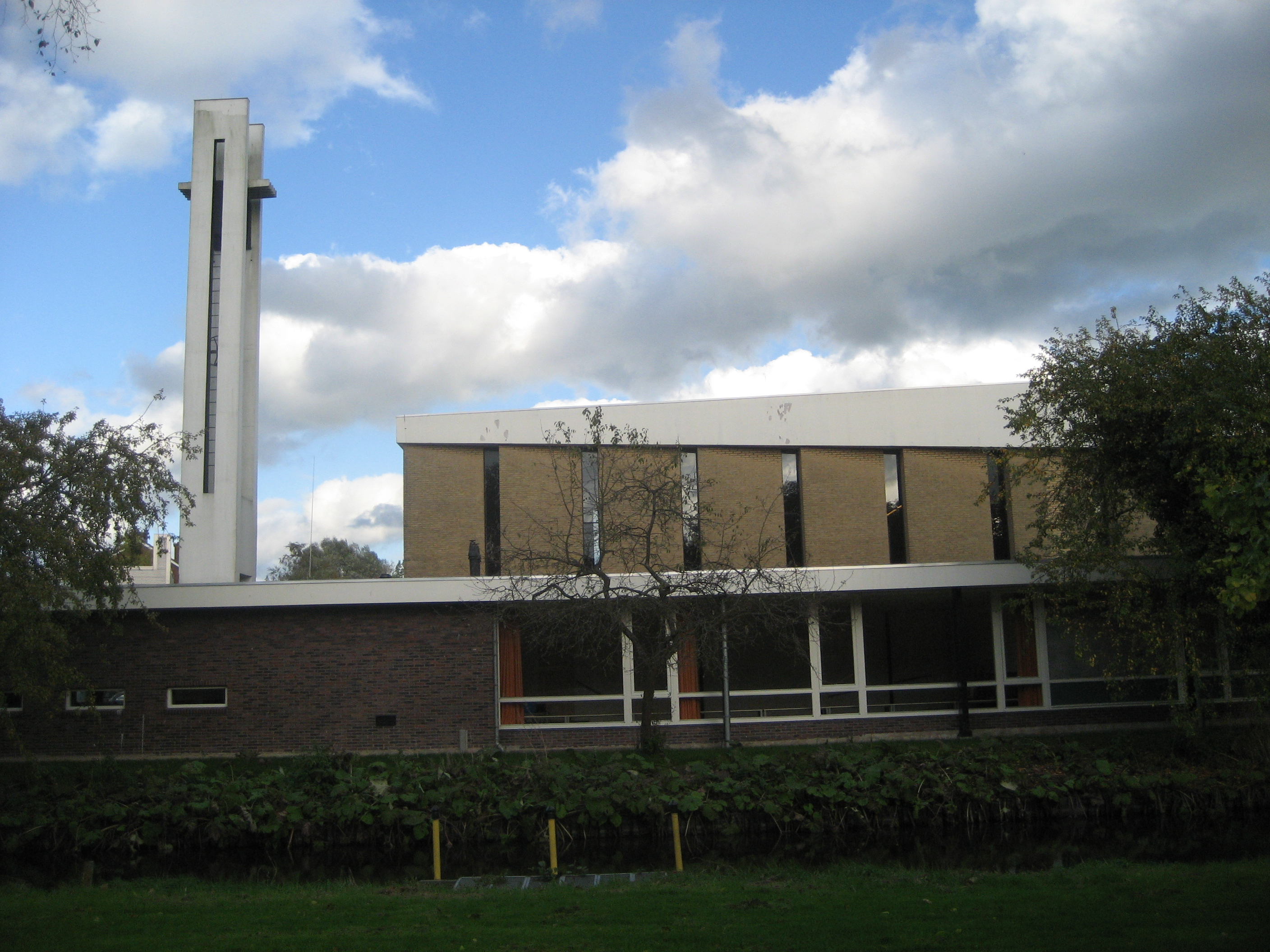 Vredeskerk, Leiden (The Netherlands). (Peace Church). Architects George Hamerpagt & J. de Gruyter. Built around 1963